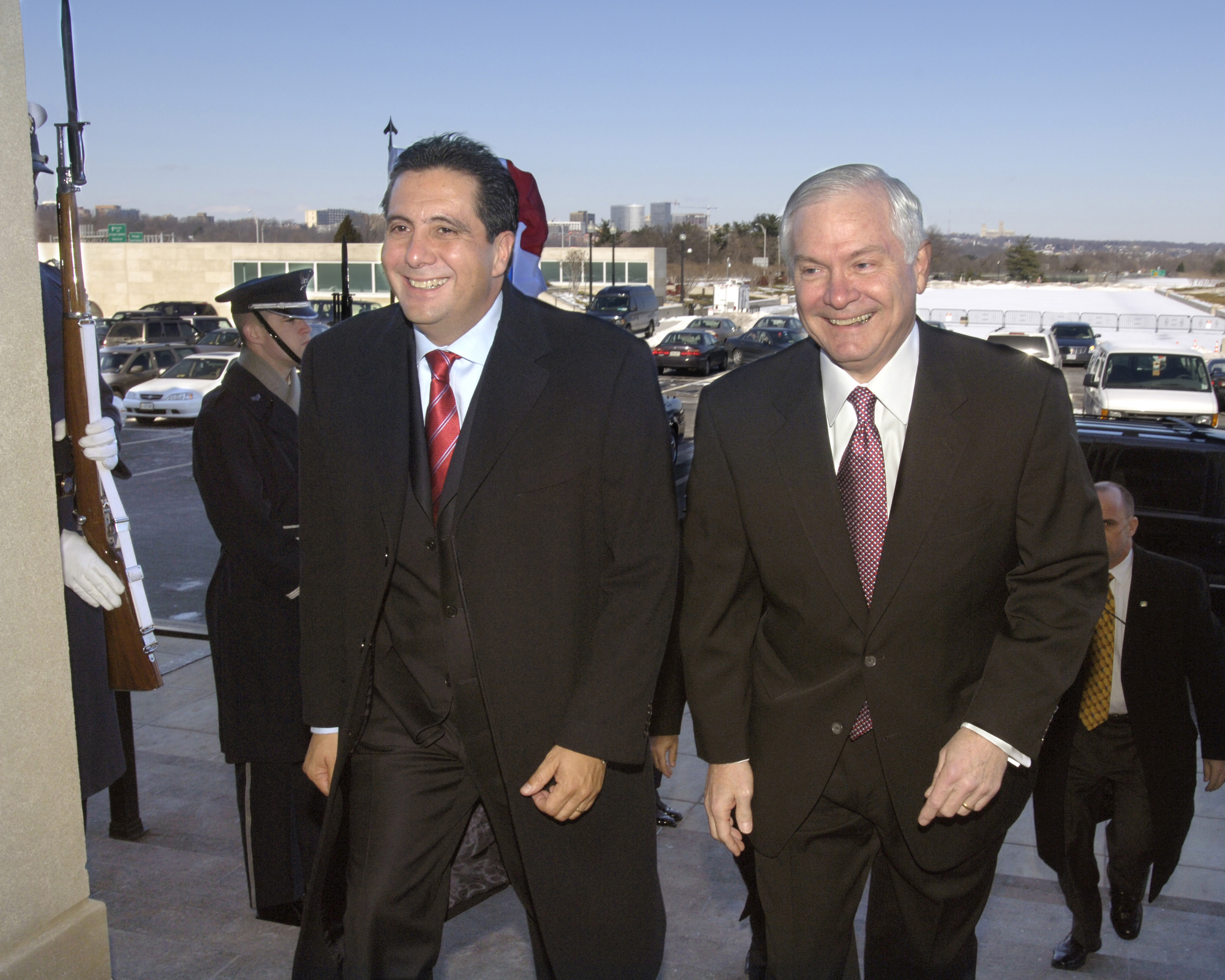 Secretary of Defense Robert M. Gates, right, escorts Panamanian President Martin Torrijos into the Pentagon Feb. 16, 2007, for a working lunch to discuss regional security issues. DoD photo by R.D. Ward. (Released) (Released to Public)